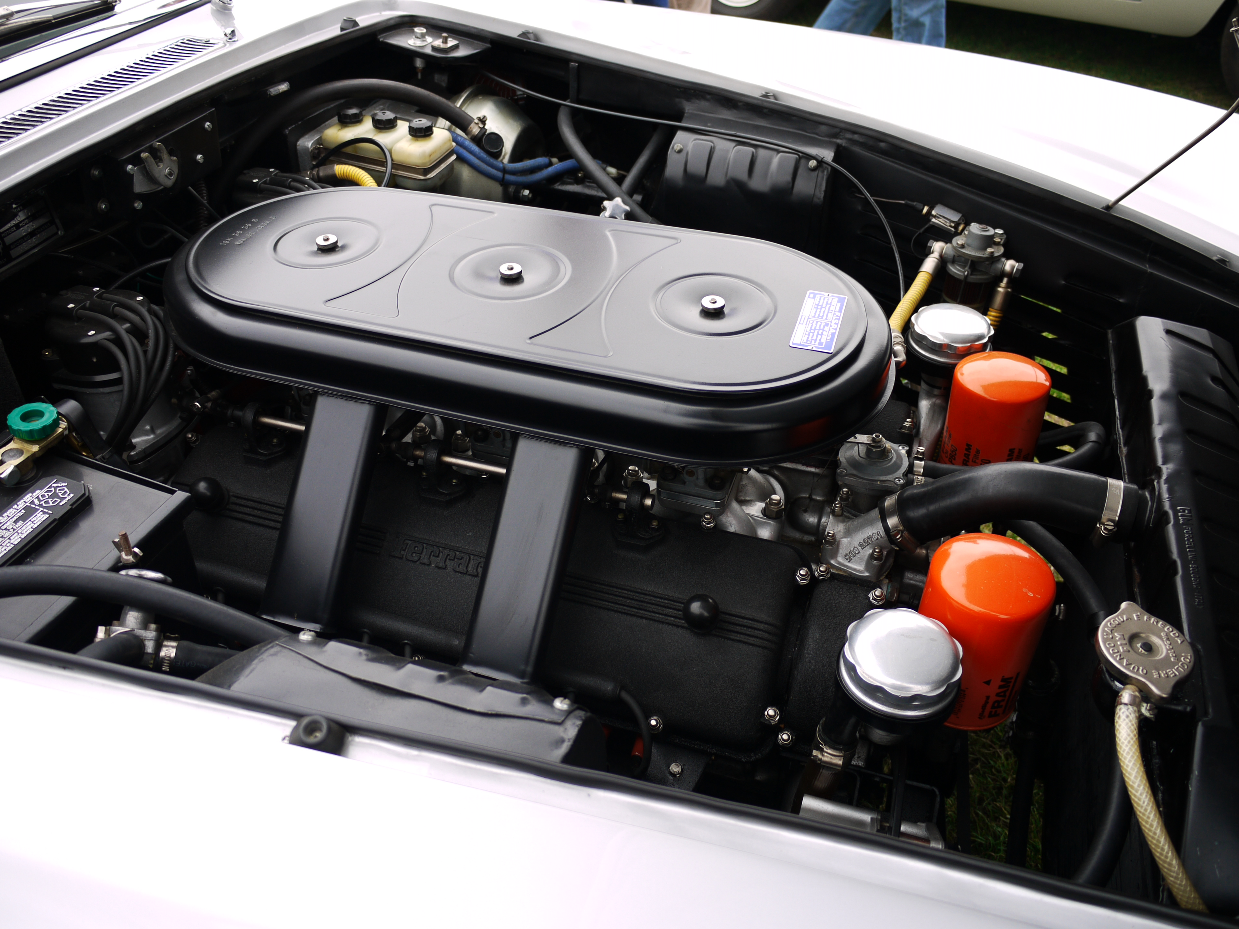 The 4-liter V12 in a Ferrari 330 GT 2+2 Series II